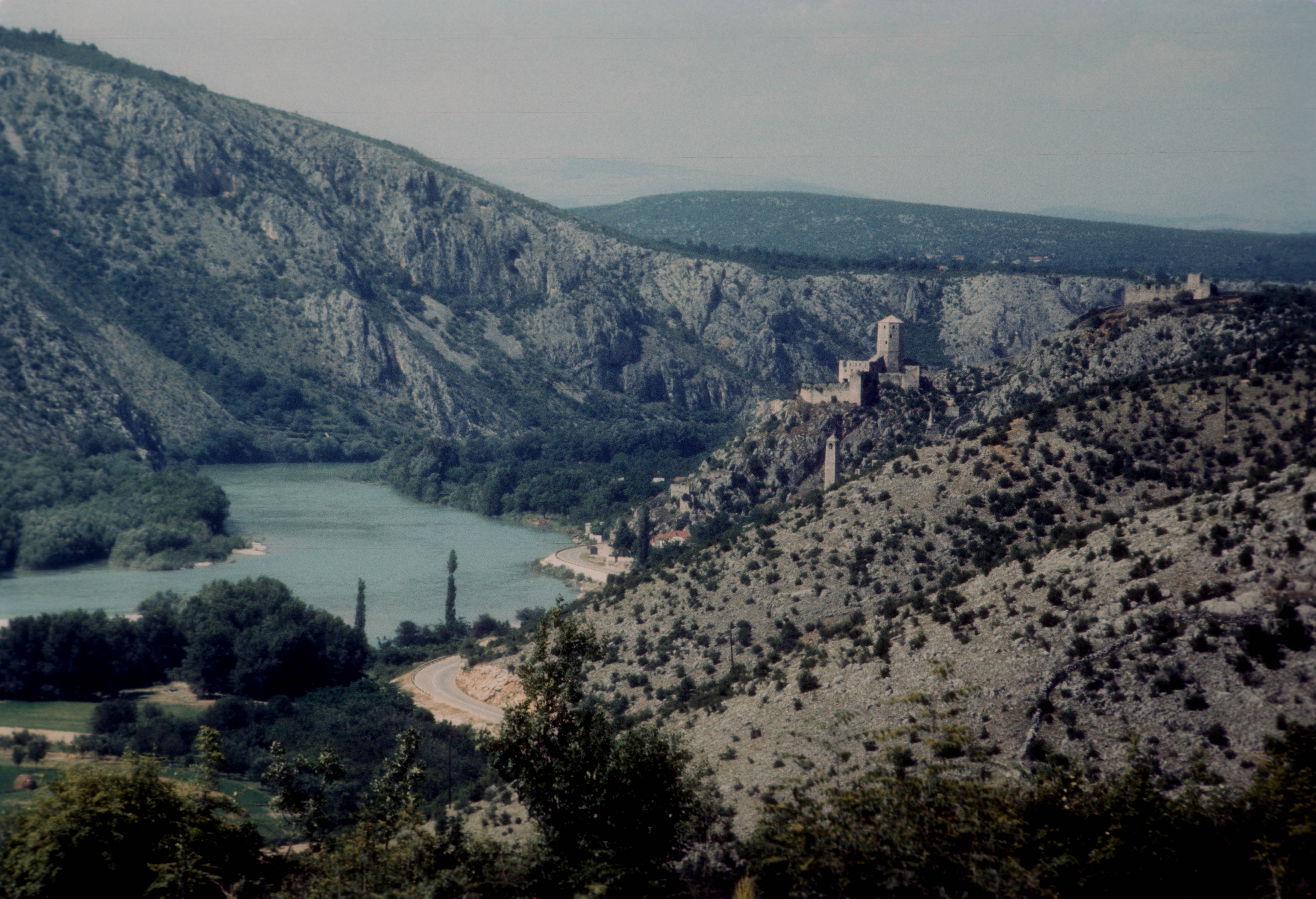 SITE OF FORTRESS PERCHED HIGH OVER THE NERETVA RIVER. THE FORTRESS WAS THE SITE OF RESISTANCE TO TURKISH EXPANSION FROM INLAND HERZEGOVINA